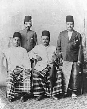 Colonial era photo